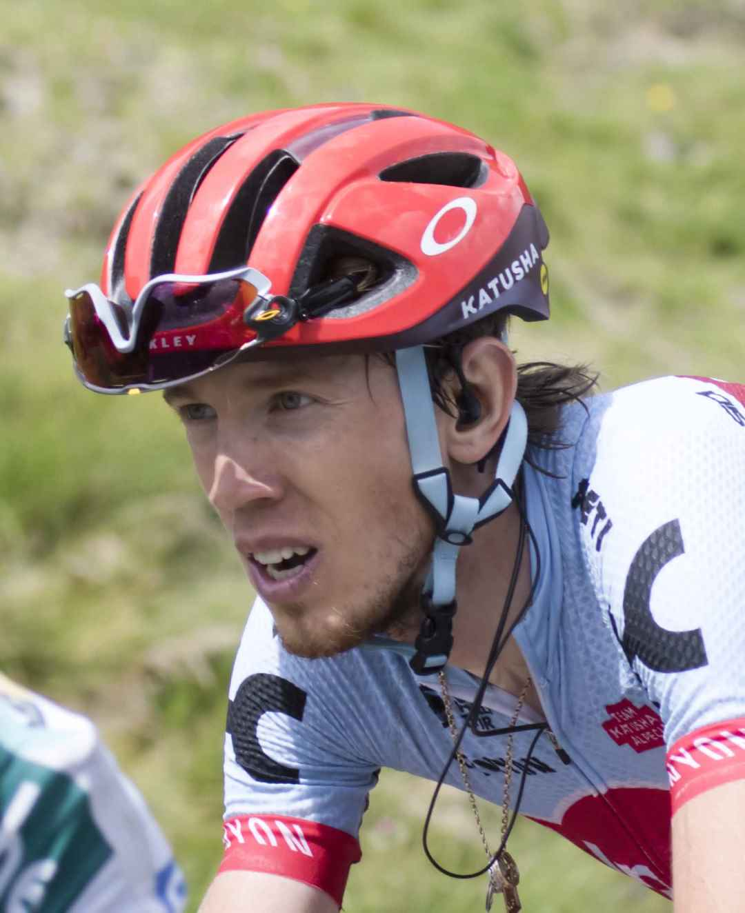 2018 Tour de France